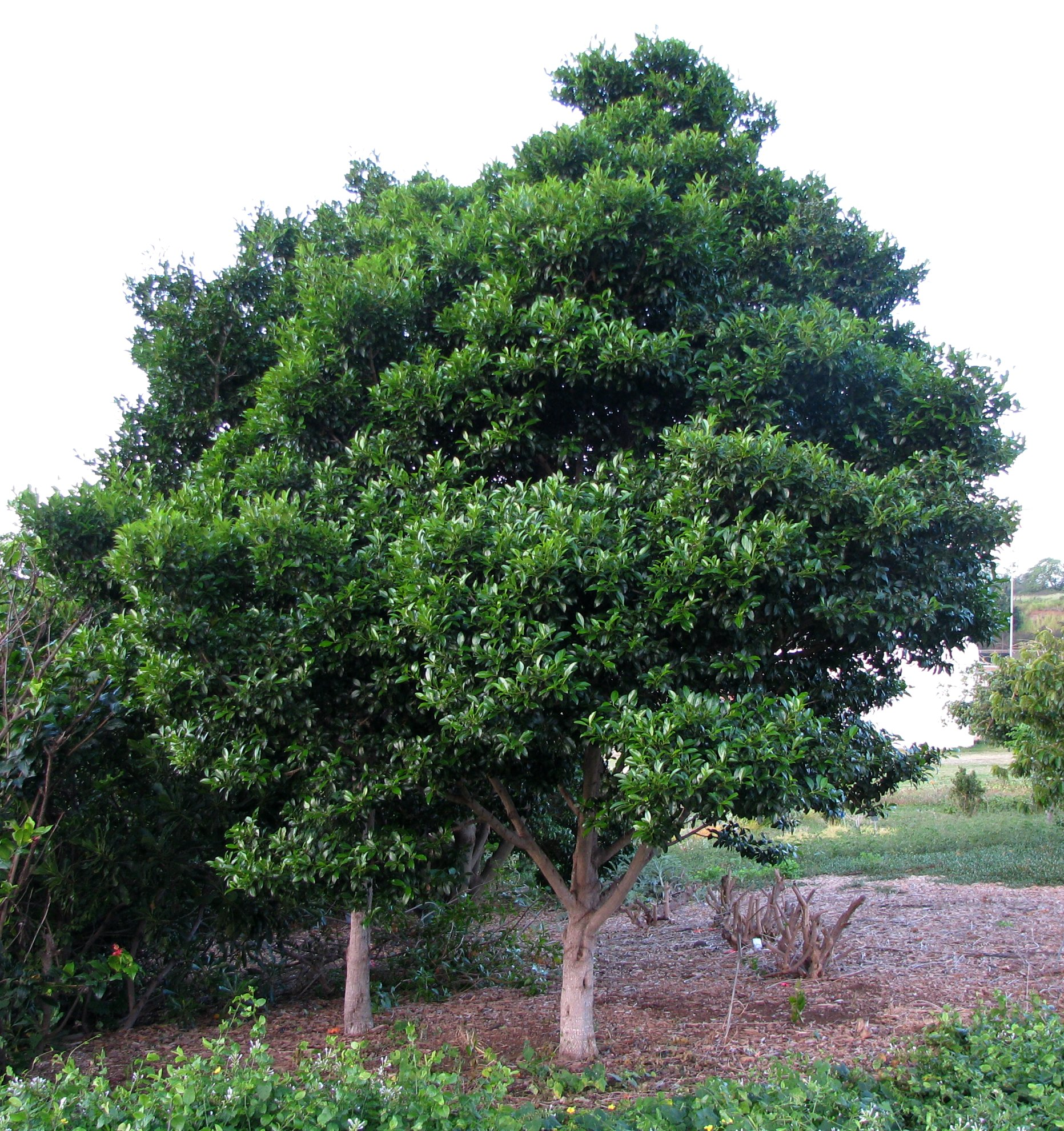 Alaheʻe or Walaheʻe [syn. Canthium odoratum] Rubiaceae Indigenous to the Hawaiian Islands Oʻahu (Cultivated) Two beautiful trees in landscape setting. Reportedly a dark brown or black dye was produced from the leaves of alaheʻe by early Hawaiians. Spears, from 6 to 13 feet long, were fashioned for capturing heʻe (octopus) and were often made from alaheʻe. The hardwood was used for farming tools such as ʻōʻō, fishhooks, shark hooks (makau manō) with bone points, short spears (ʻo), and dip nets for fish and crabs. The wood was also made into adze blades for cutting softer wood such as wiliwili and kukui. Medicinally, the leaves and "the white skin of the stem" are prepared by cooking and the bitter medicine is drunk to cleanse the blood. NPH00007